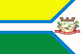 Flag of Nova Ubiratã (Mato Grosso) - Copyrited by the brazilian law of Industrial Preperty (Law 9.279/ 14/05/1996